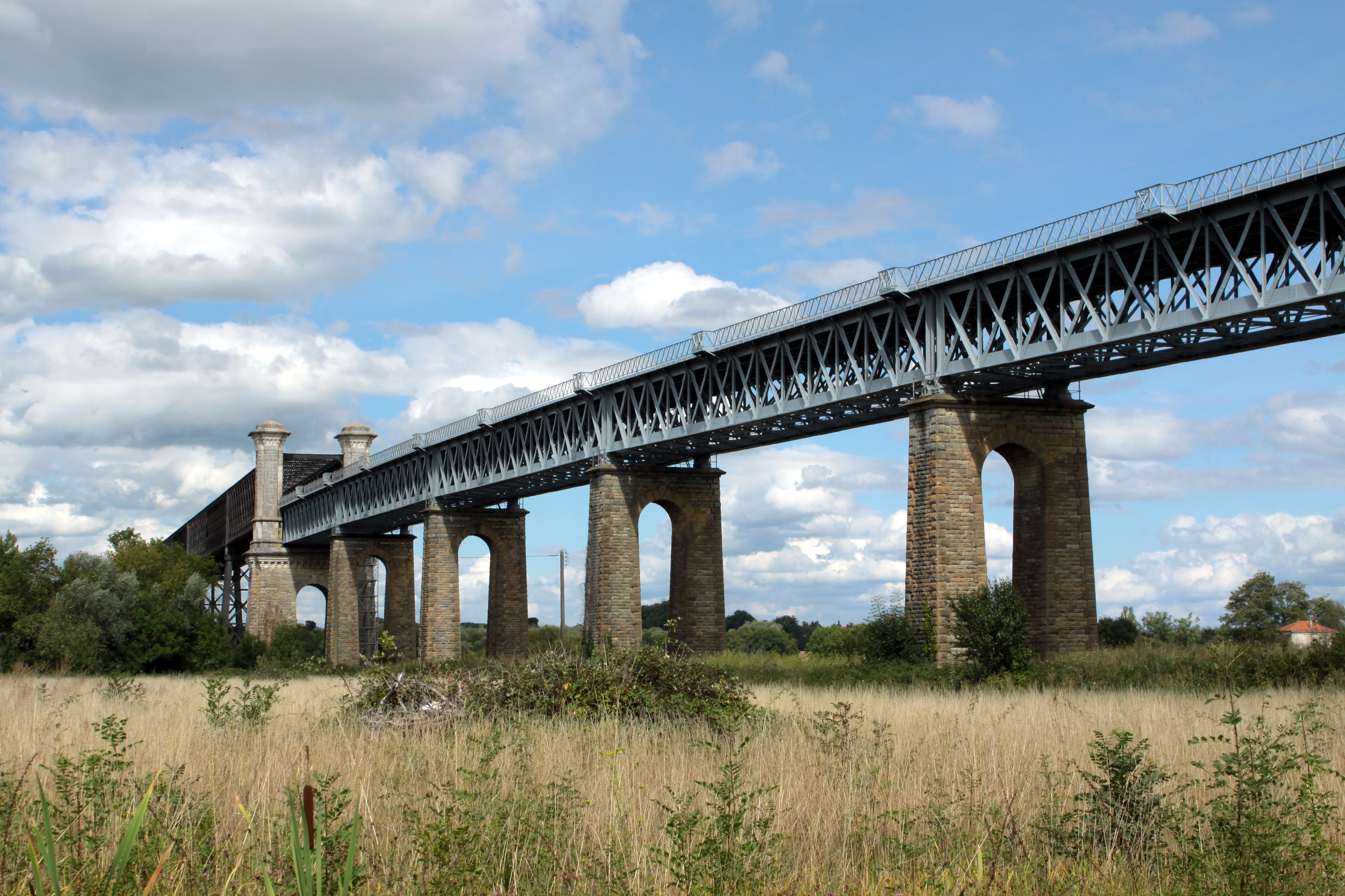 Railway-bridge at Cubzac-les-Ponts